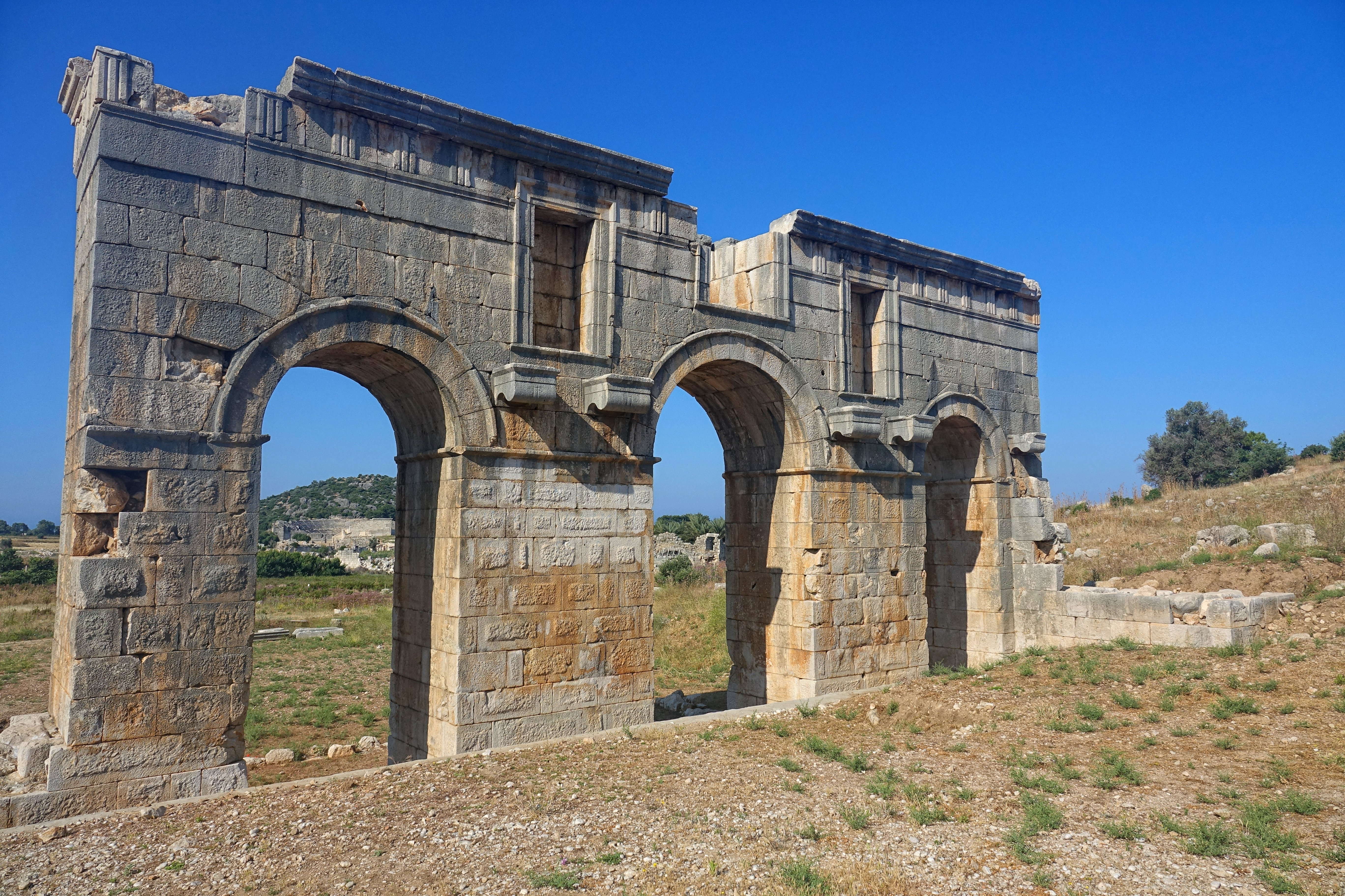 Parts of the city wall of the ancient Lycian city of Patara that have been restored.